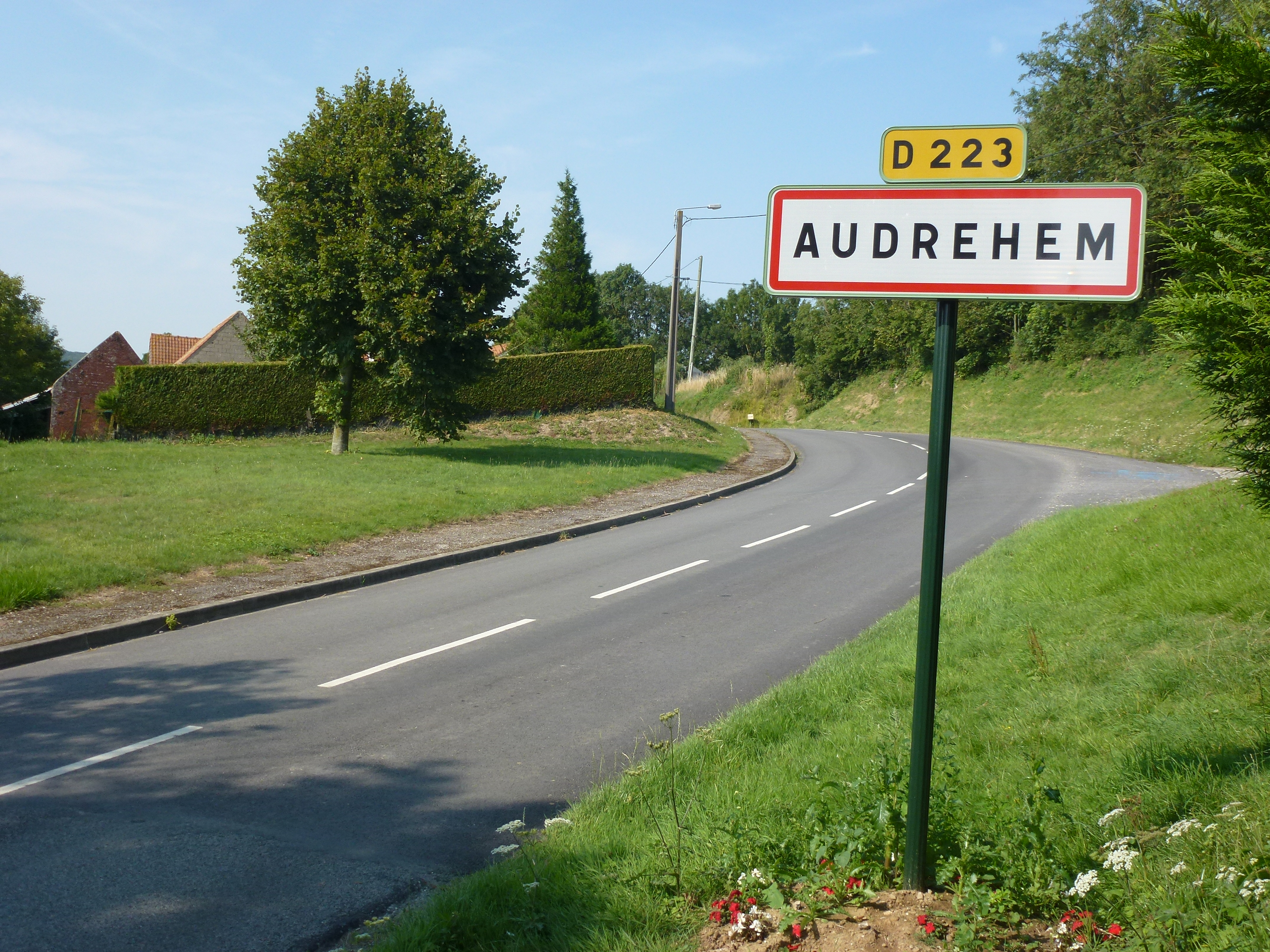 Audrehem (Pas-de-Calais) city limit sign